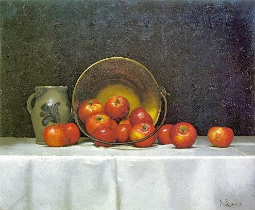 still life by American artist Anna Lownes